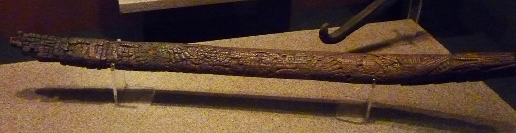 An atlatl or spear-thrower is a tool that uses leverage to achieve greater velocity in dart-throwing, and includes a bearing surface which allows the user to temporarily store energy during the throw. It consists of a shaft with a cup or a spur, which may be integrated into the weapon or made separately and attached, in which the butt of the projectile, properly called a dart, rests. The atlatl is held in one hand, gripped near the end farthest from the cup. The dart is thrown by the action of the upper arm and wrist in combination with the atlatl as an extension of the throwing arm, adding significant force through increased angular momentum. Common dog ball-throwers (molded plastic shafts used for throwing tennis balls for dogs to fetch) use the same principles and in effect are a type of atlatl. A traditional atlatl is a long-range weapon and can readily achieve speeds of over 150 km/h (93 mph).